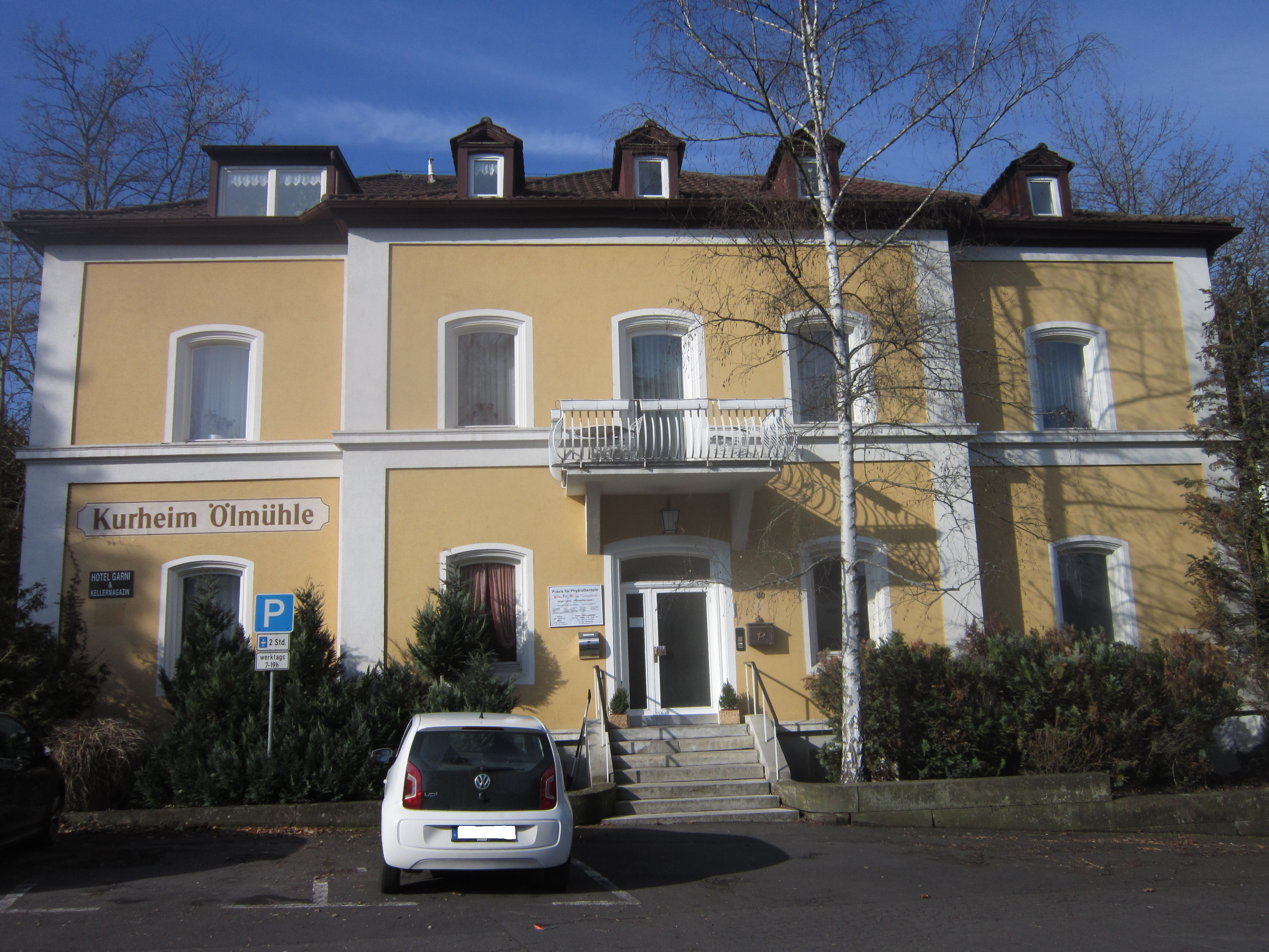 Building in the German spa town of Bad Kissingen in Lower Franconia (Bavaria) (Address: Rosenstraße 10).